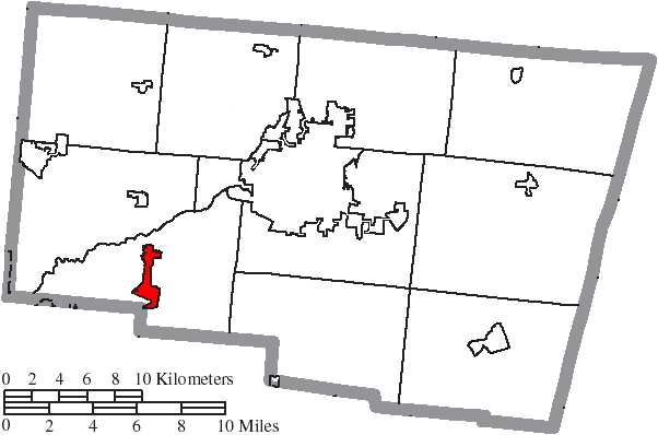 Map of the municipal and township boundaries of Clark County, Ohio, United States, as of the 2000 census, with the location of the village of Enon highlighted. Township borders are shown only in unincorporated areas in order to differentiate incorporated and unincorporated areas more clearly.